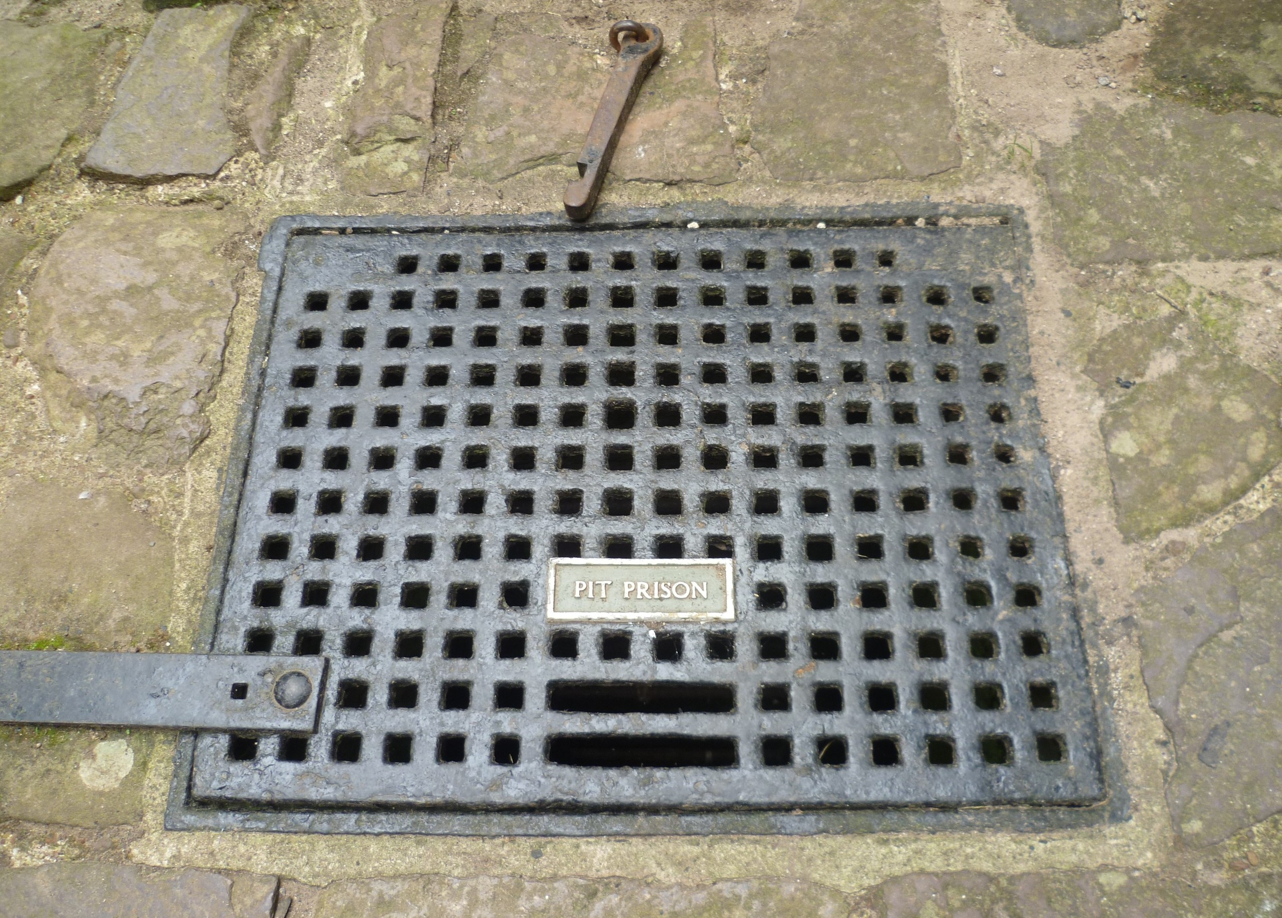 Modern entrance grille placed over one of two pit prisons in the castle. This one held the Lutheran preacher George Wishart briefly before he was handed over to the Archbishop of St. Andrews and burnt in 1546.